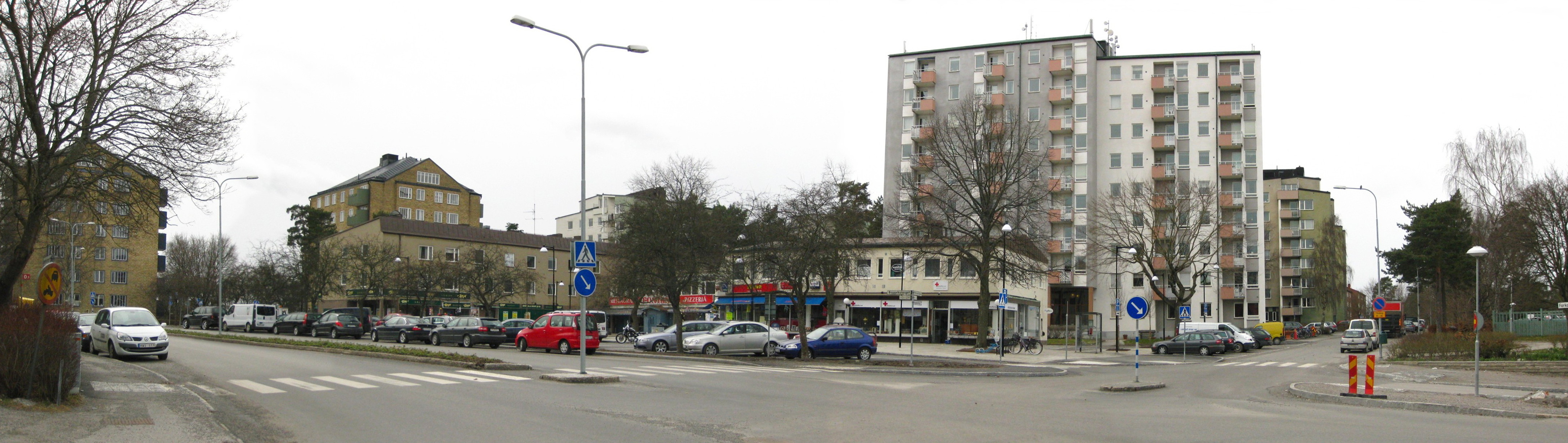 Baggeby sqare, Baggeby, Lidingö, east Stockholm, Sweden